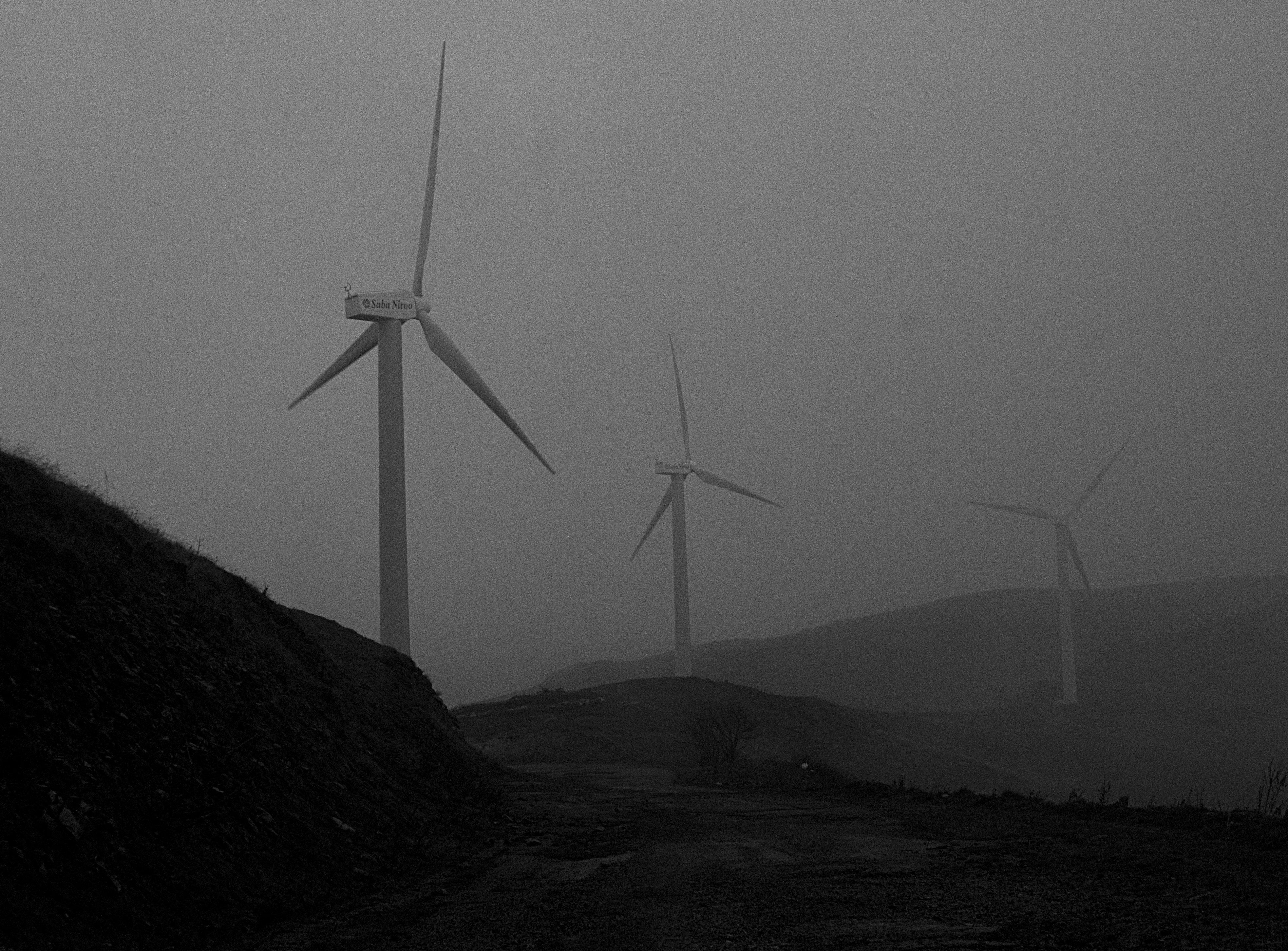 Lori-1 wind farm